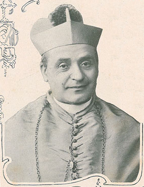 Sebastião Leite de Vasconcelos (1852-1923), Bishop of the Roman Catholic Diocese of Beja.